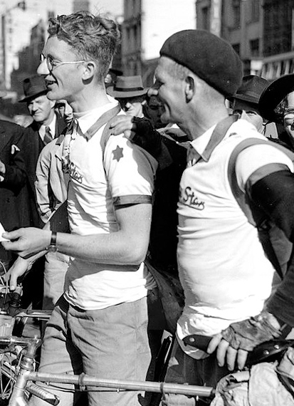 Cyclists Hubert Opperman and Russell Mockridge arrive in Sydney from Melbourne on their Malvern Star bicycles on 13 June 1948